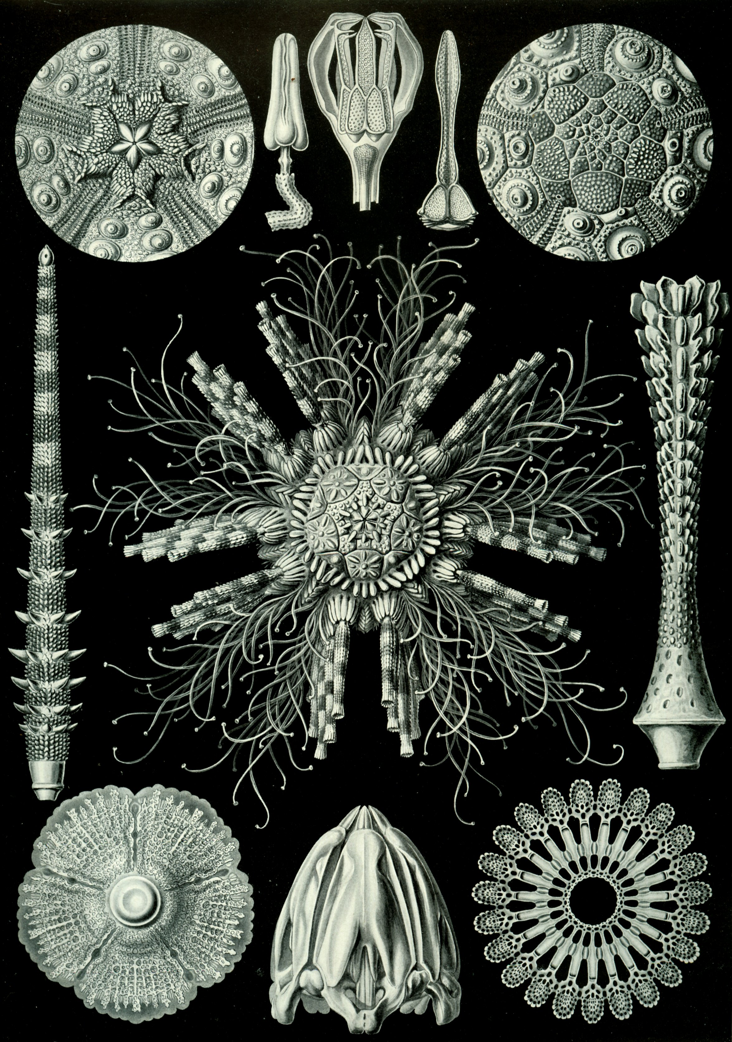 See here for index to numbers. Cidaris tribuloïdes (Lamarck) = Cidaris tribuloides Lamarck, 1816, from below Cidaris baculosa (Lamarck) = Prionocidaris baculosa (Lamarck, 1816)?, mouth region of shell from below (spines removed) Cidaris baculosa (Lamarck) = Prionocidaris baculosa (Lamarck, 1816)?, periproct region of shell from above (spines removed) Dorocidaris papillata (Agassiz) = Cidaris cidaris (Linnaeus, 1758), pedicellaria Strongylocentrus nudus (Agassiz) = Strongylocentrotus nudus (A.Agassiz, 1863), pedicellaria in lengthwise section Phyllacanthus annulifera (Agassiz) = Prionocidaris baculosa (Lamarck, 1816), spine Phyllacanthus baculosa (Agassiz) = Prionocidaris baculosa (Lamarck, 1816), spine Psammechinus miliaris (Agassiz) = Psammechinus miliaris (P.L.S.Müller, 1771), endplate of tube-foot Centrostephanus longispinus (Peters) = Centrostephanus longispinus (Philippi, 1845), spine in cross-section Sphaerechinus esculentus (Desor) = Sphaerechinus granularis (Lamarck, 1816), pedicellaria in lengthwise section Sphaerechinus esculentus (Desor) = Sphaerechinus granularis (Lamarck, 1816), mouthparts ("Aristotle's Lantern") from the side